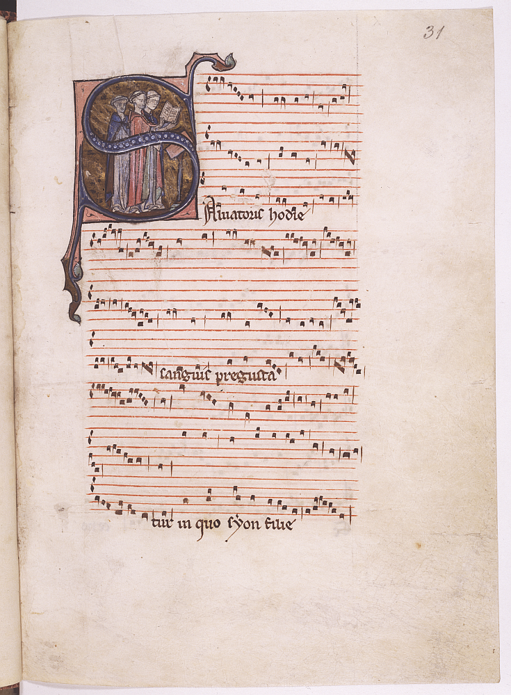 Page 31 recto of Manuscript W2 (1099 Helmst), Notre Dame school, from the 13th century, showing the beginning of the Conductus Salvatoris hodie